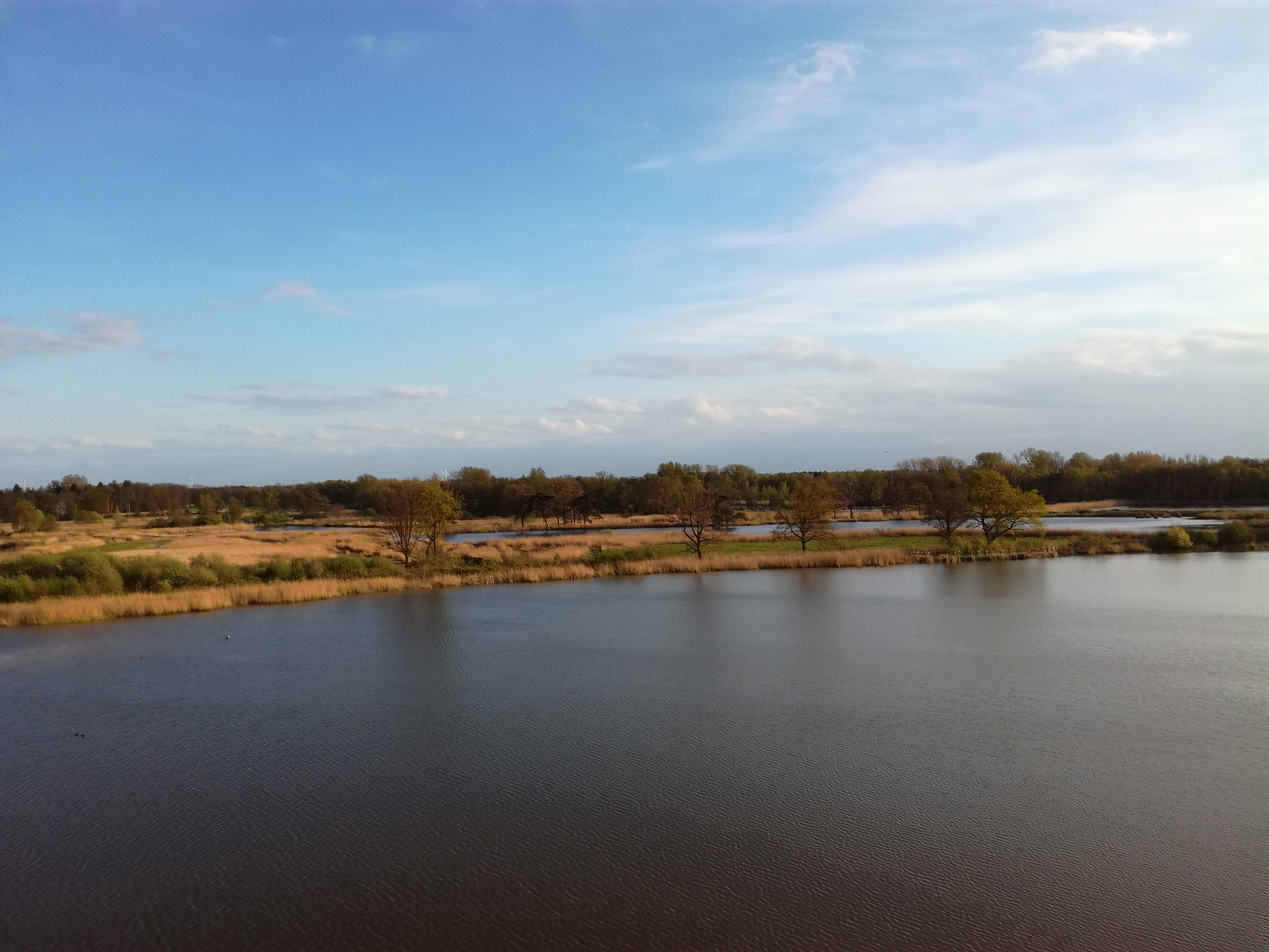 Landscape of the Platwijers